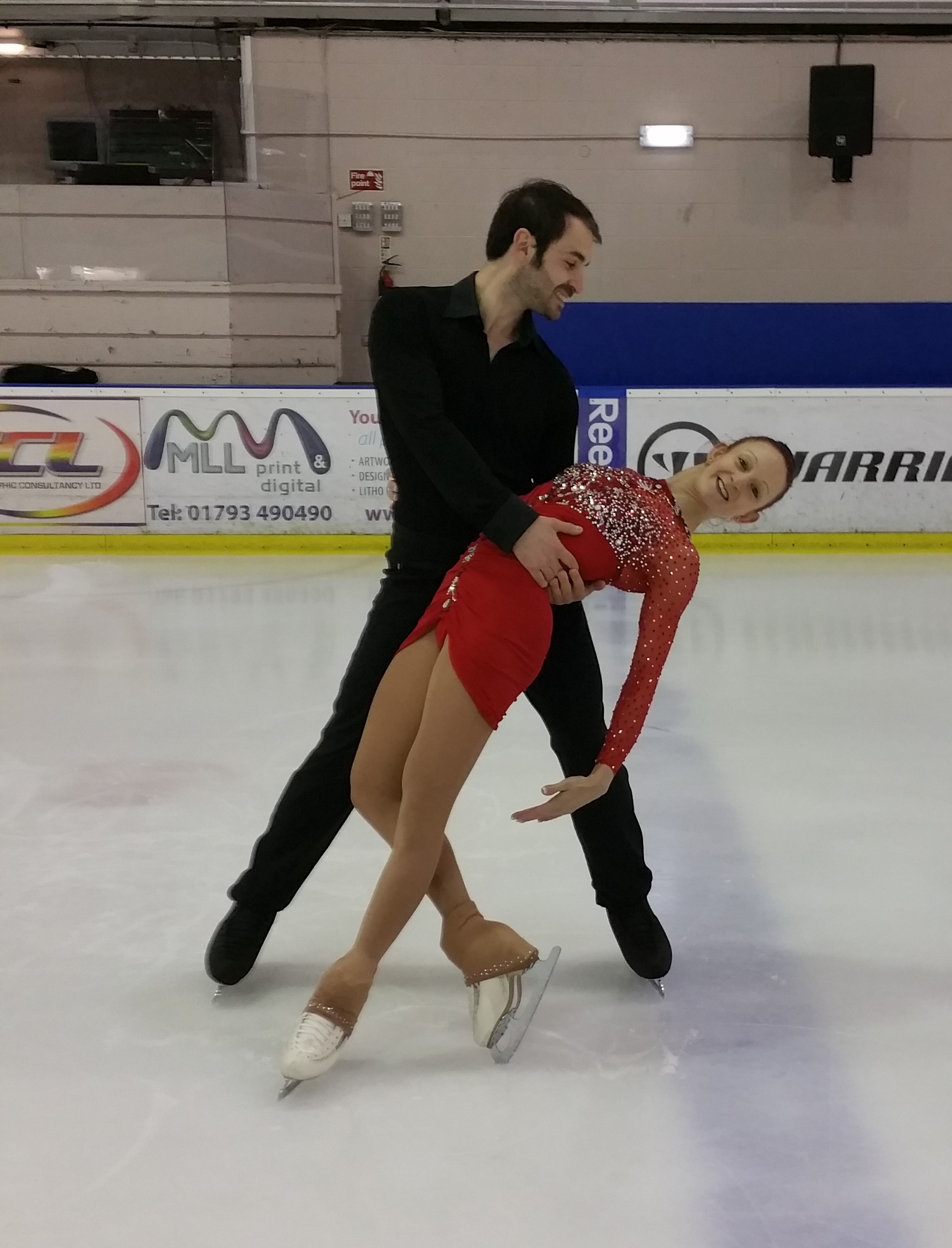 Training in Swindon Ice Rink